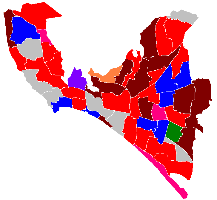 Results of the Kollam 2005 municipal election, colour indicating winning party: red CPI(M), dark red CPI, pink RSP, purple DIC(K), blue INC, light brown CMP, green PDP, grey independent